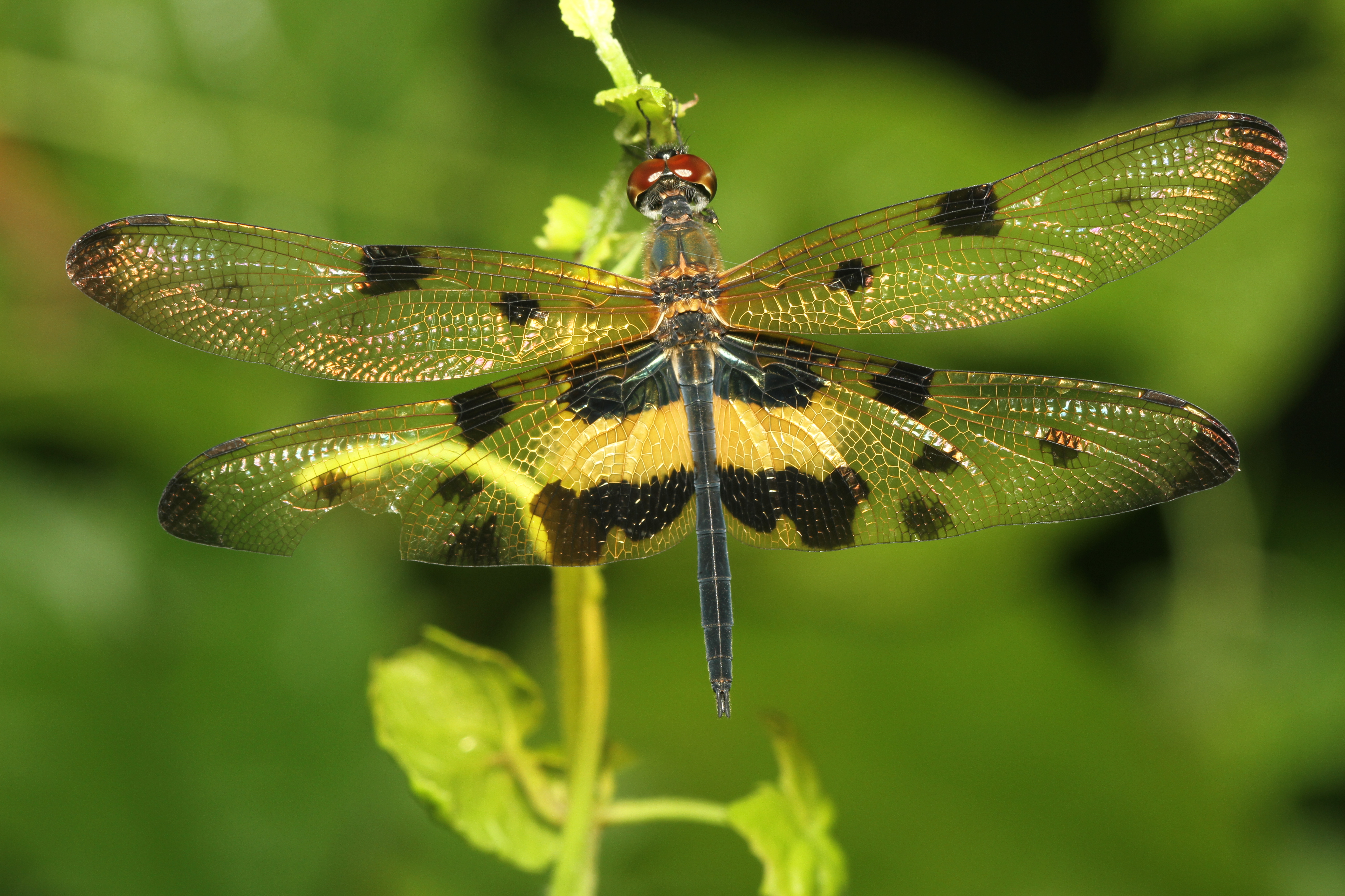 Rhyothemis variegata from India